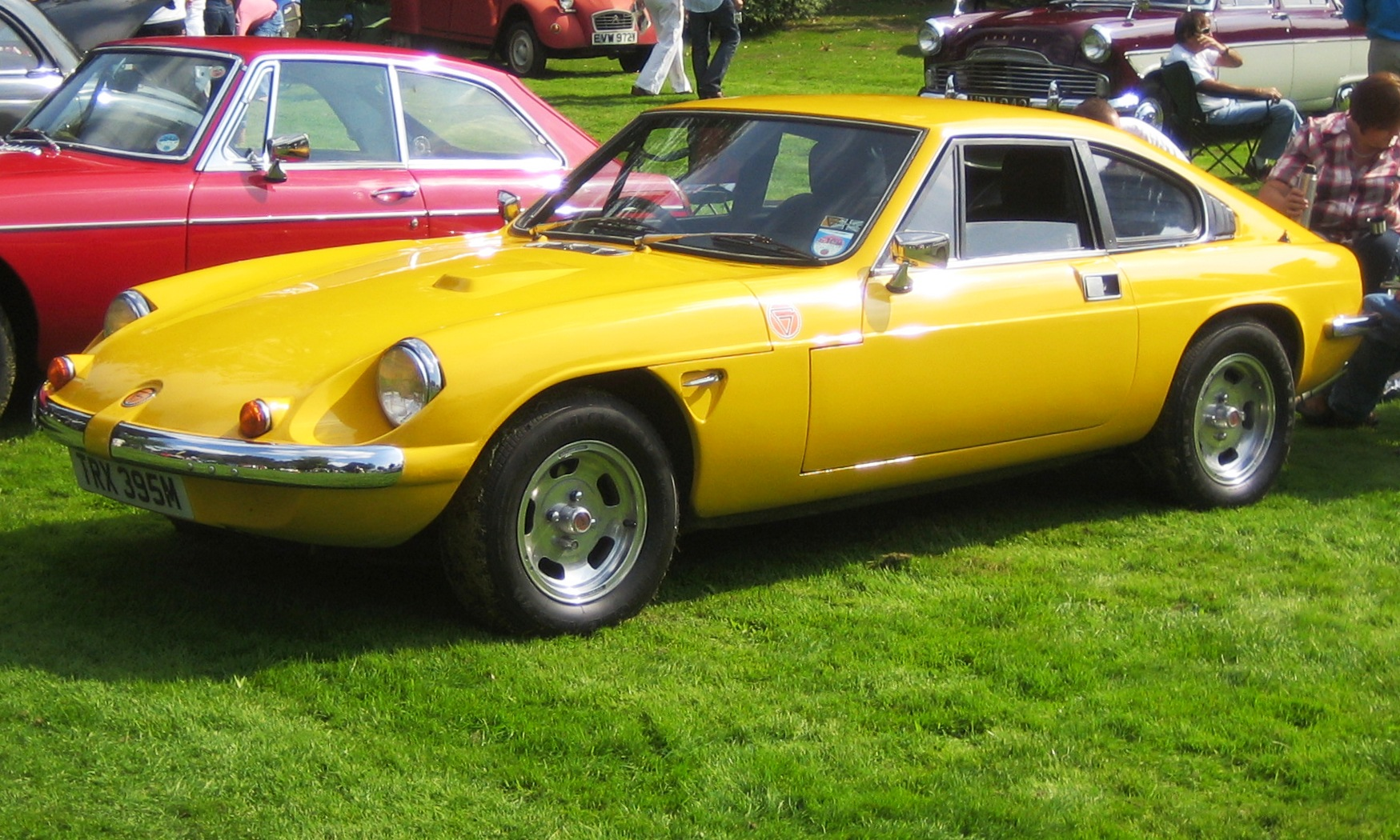 Ginetta G21 in Essex near Suffolk